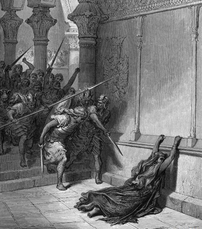 Athaliah